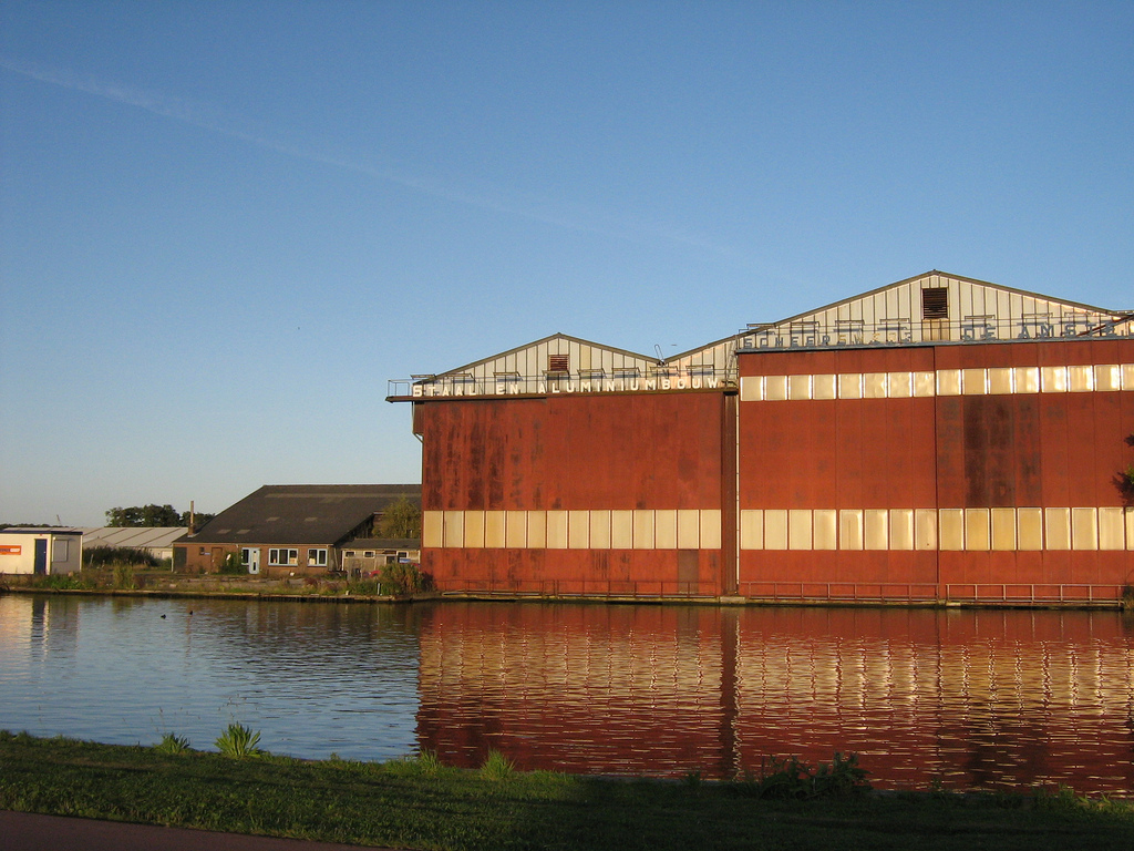 Buildings of the now defunct shipyard "Scheepswerf de Amstel" on the Amstel Island in Amstelveen, the Netherlands. Photograph taken on the evening of August 22 2009.